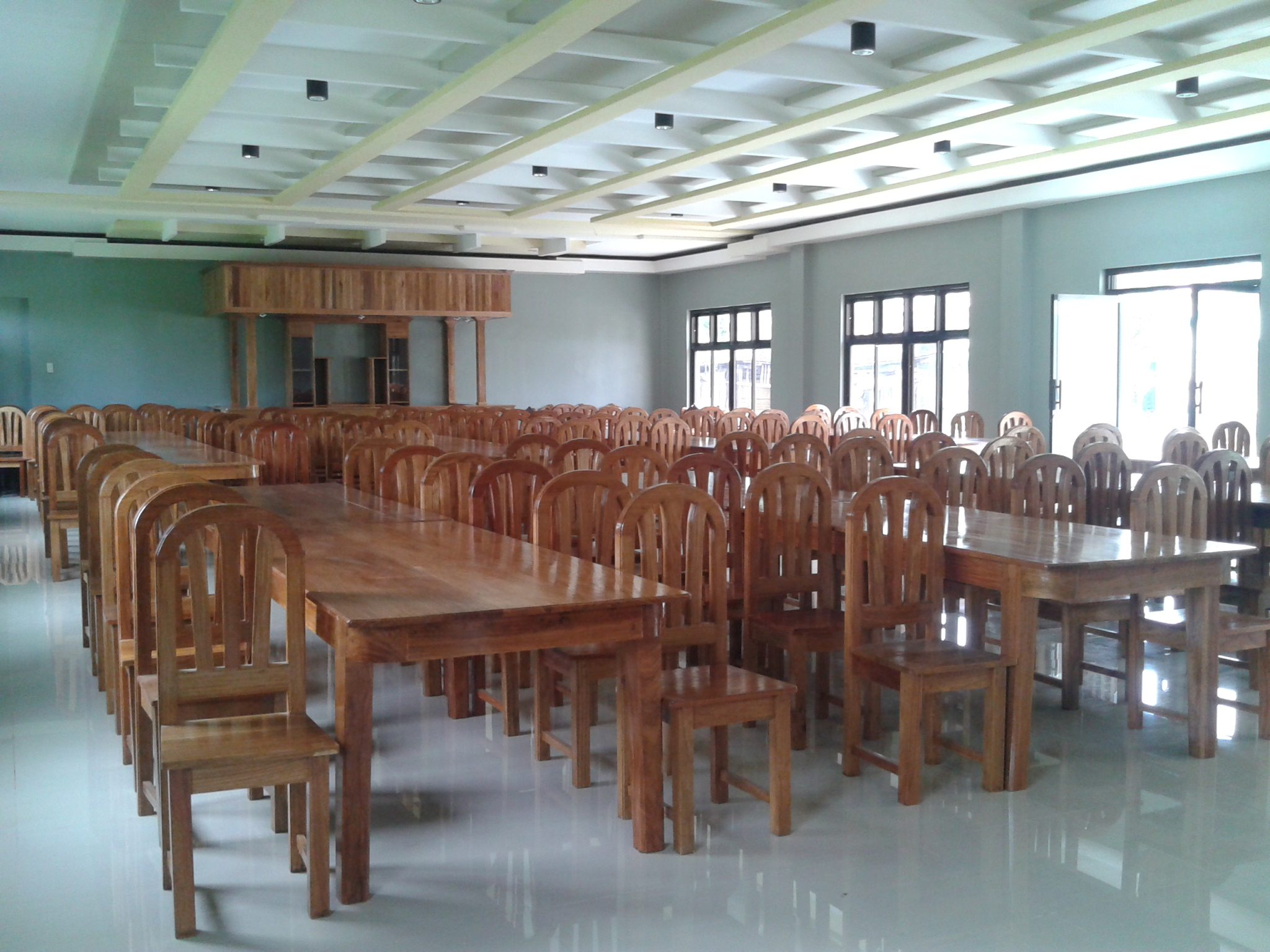 Tagum National Trade School State of the Art Building